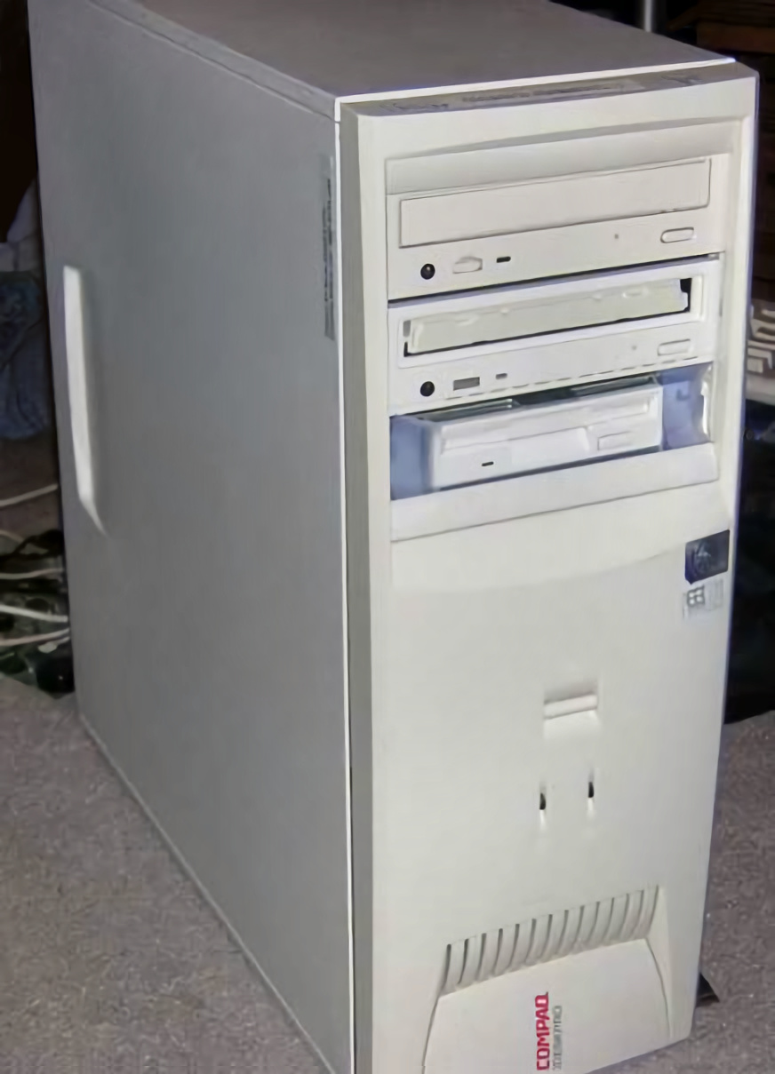 A Compaq Deskpro 6333 from the late 1990's. This one has been modified from the original factory state.